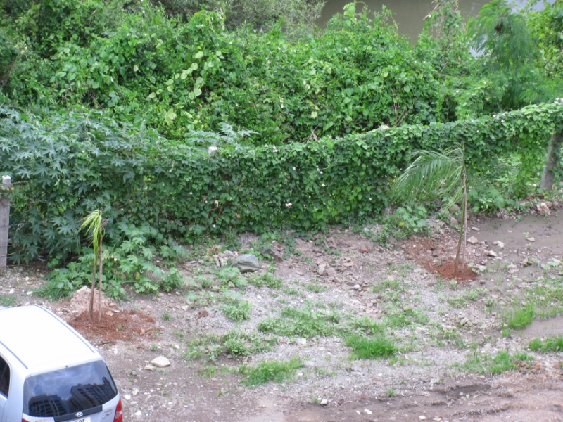 Recent tree plantation drive held by concern residents.